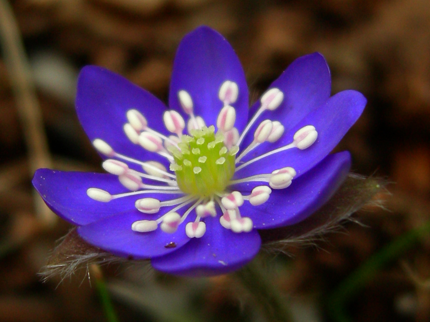 Hepatica Nobilis (Begunje na Gorenjskem, Slovenia)